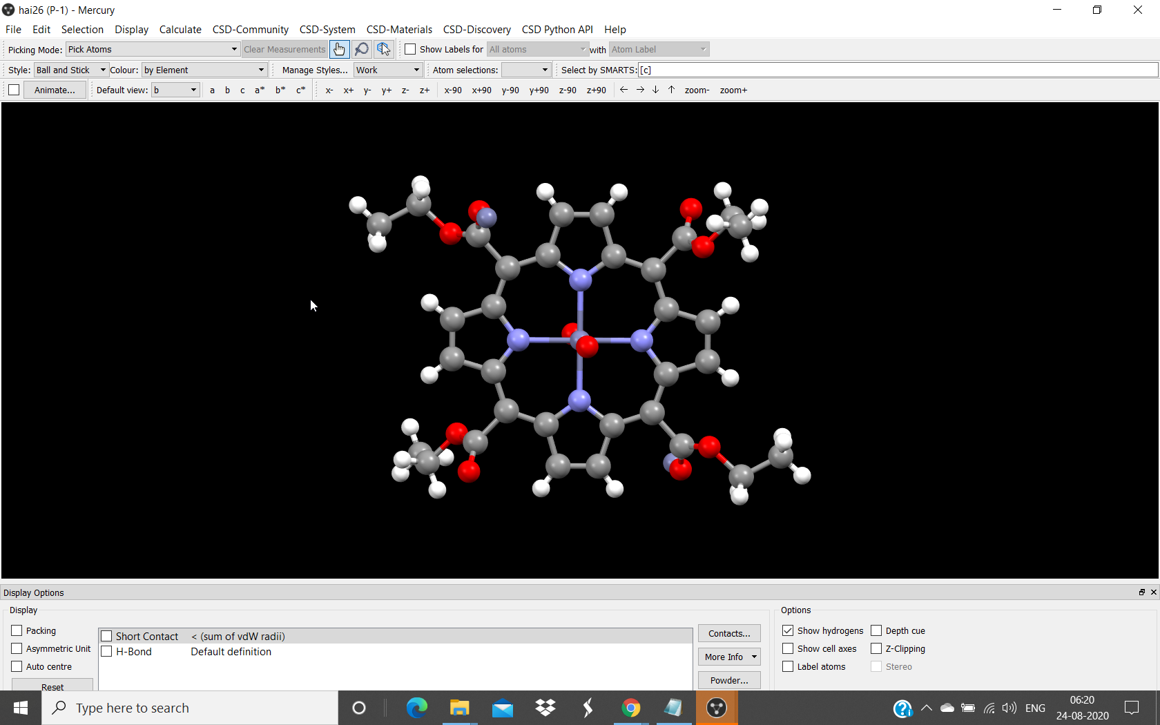 Mercury is a freeware, its my own screenshot of this software